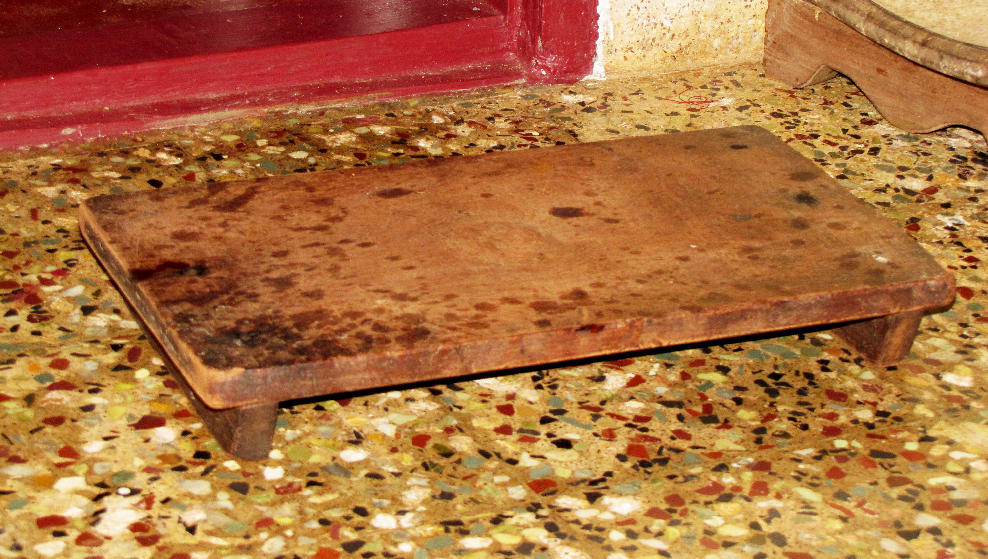 A wooden seat which is using for sitting. It is widely used in the Kerala.